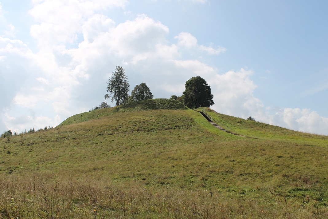 Rudamina Hillfort, Lazdijai district municipality, LithuaniaLietuvių: Rudaminos piliakalnis, Lazdijų rajono savivaldybė, Lietuva